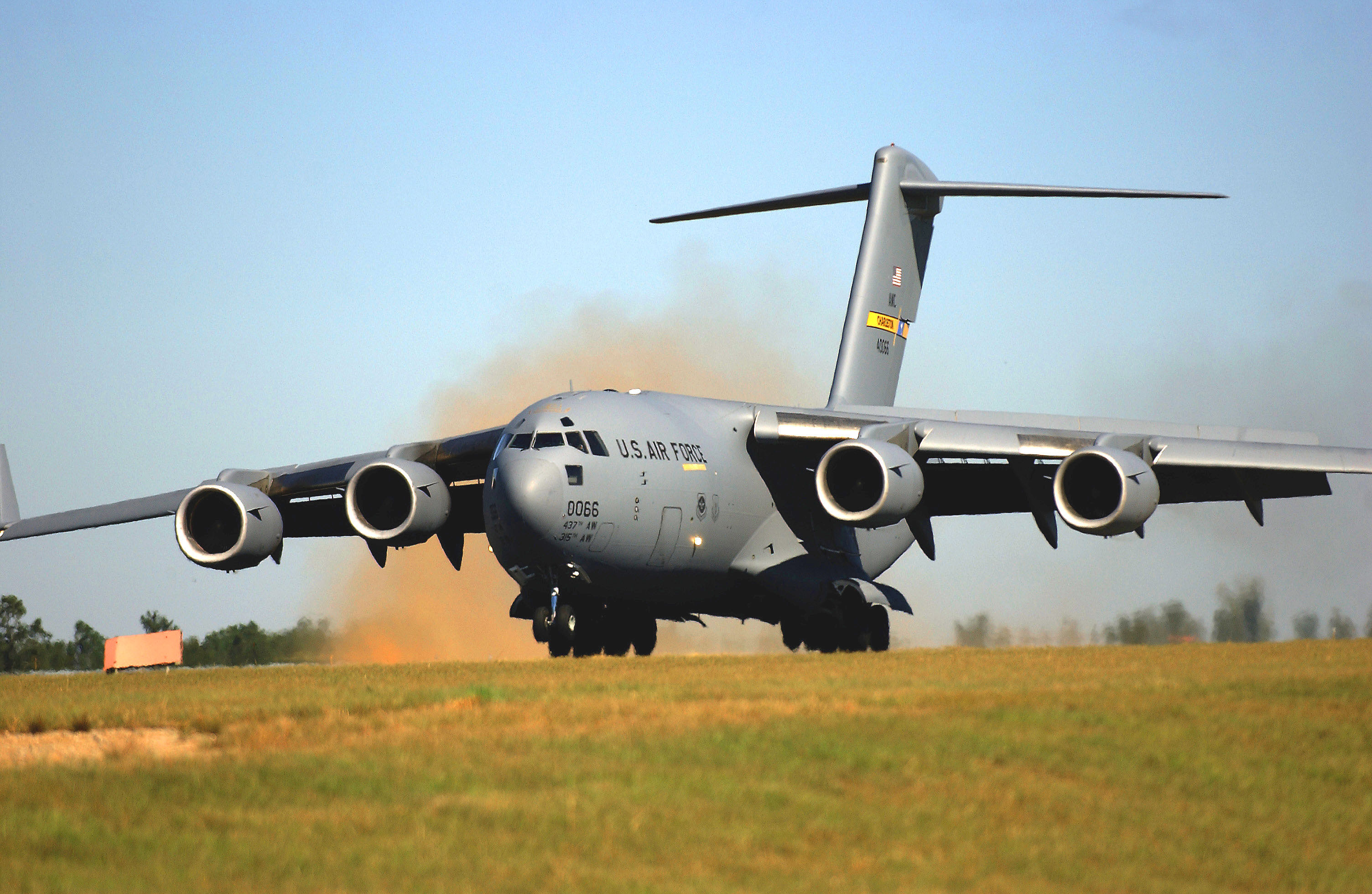 Women of the 437th Airlift Wing watch a C-17 Globemaster III pilot perform a combat landing during an spouse incentive flight at North Field Air Base, S.C. on November 6, 2004.